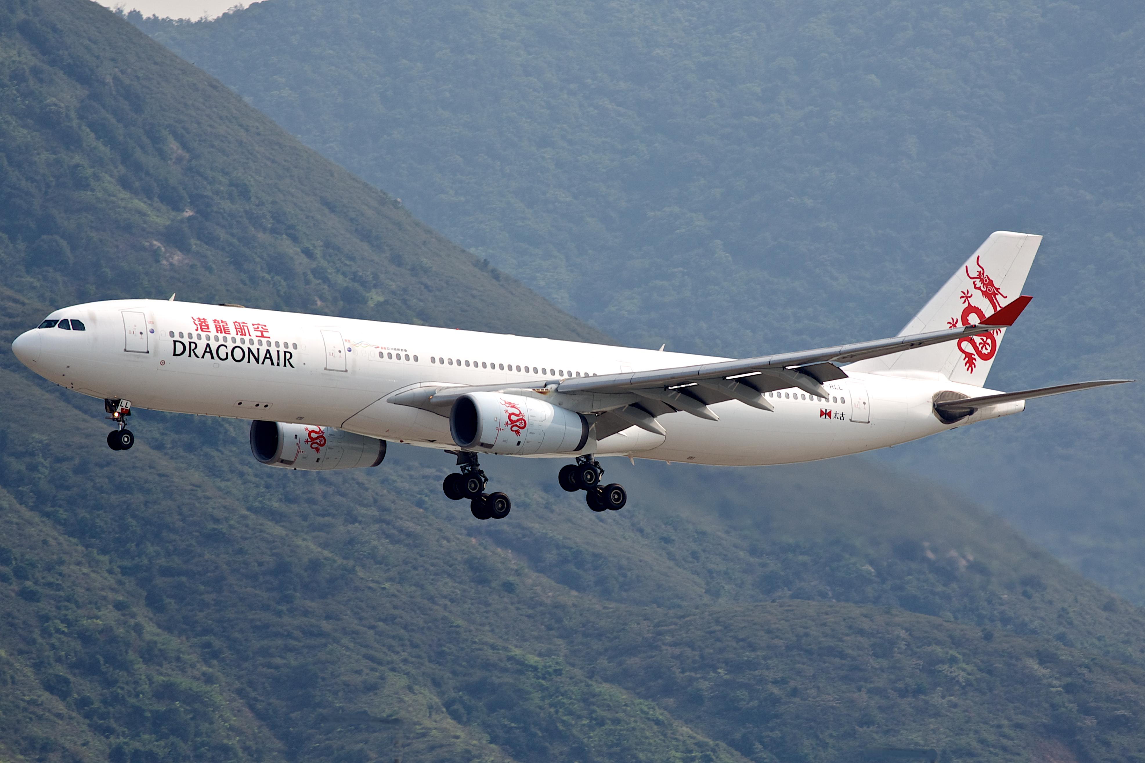 B-HLL | A330-342 | Dragonair